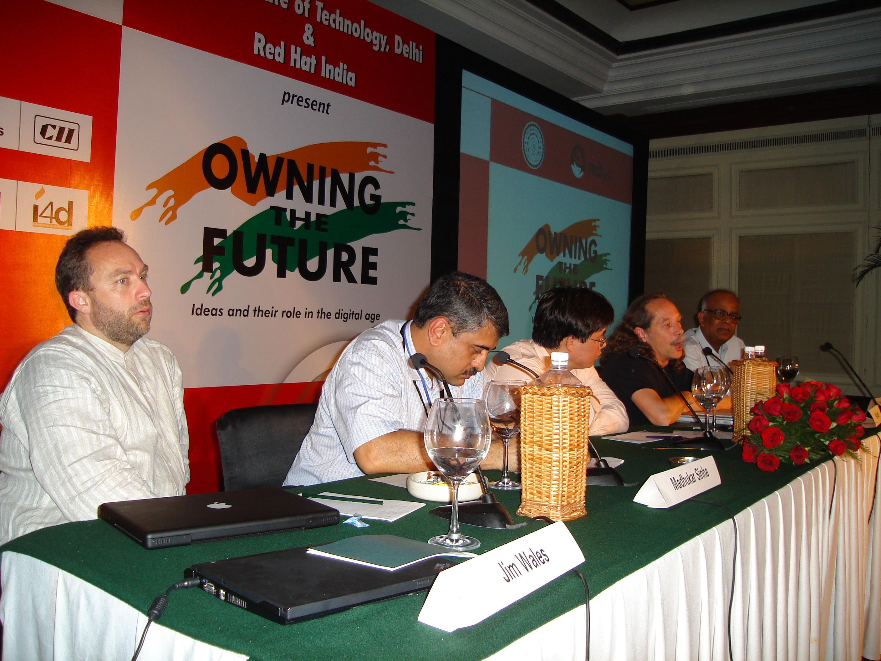 Participants, including Wikipedia founder Jimmy Wales (extreme left), at the 'Owning the Future' knowledge symposium held in New Delhi in August 2006. Others seen (from left) in the photo are India's Registrar of Copyrights Madhukar Sinha, Indian lawyer Lawrence Liang, ibiblio's Paul Jones and Subbaiah Arunachalam of the MS Swaminathan Research Foundation. Photo Frederick Noronha